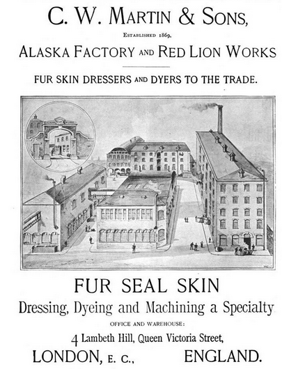 C. W. Martin & Sons, London, England